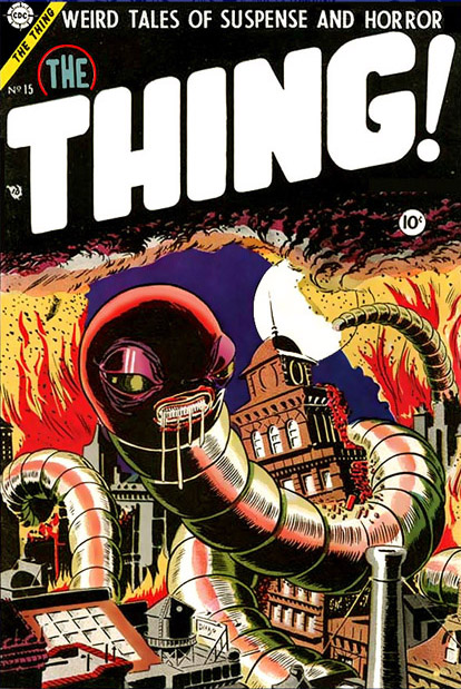 Weird Tale of Suspense and Terror: 1954 cover of The Thing number 15 by Steve Ditko. Featuring some of Ditko's earliest comics work, The Thing was notable for its exceptionally grisly visuals, outstripping even EC's Ghoulunatics in terms of pure, unadulterated gore. Image is assumed to be in the public domain due to lapsed copyright.